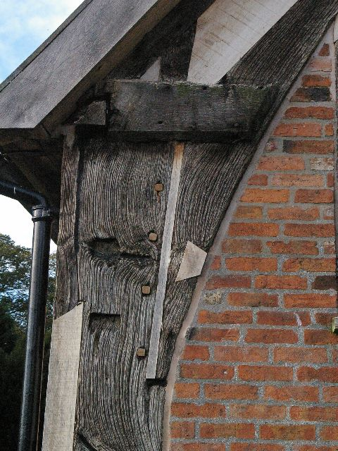 St. Michael's Church Baddiley Detail of cruck frame